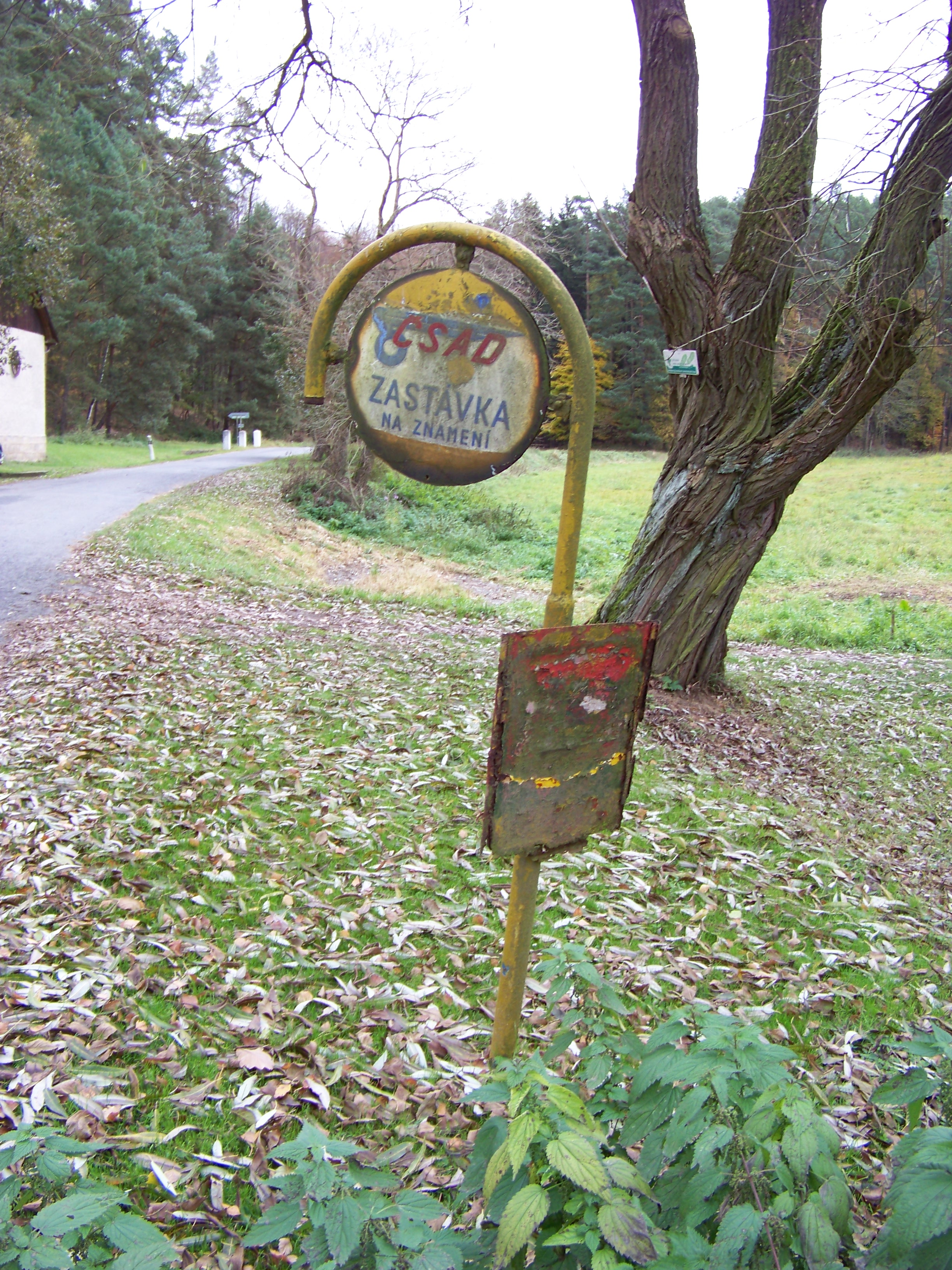 Mšeno-Brusné 2.díl, Mělník District, Central Bohemian Region, the Czech Republic. A bus stop sign on the road No 25929.